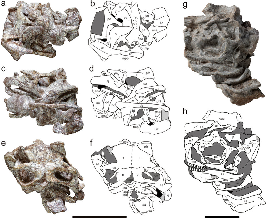 Figure 3: Skull, mandible and atlas-axis complex of Xingxiulong chengi gen. et sp. nov. (a,b) photograph and interpretative drawing of LFGT-D0002 with skull and atlas-axis complex in left lateral and mandible in ventral views; (c,d) photograph and interpretative drawing of LFGT-D0002 in ventral view; (e,f) photograph and interpretative drawing of LFGT-D0002 in dorsal view; (g,h) photograph and interpretative drawing of LFGT-D0003 in left lateral view. Abbreviations: ana, atlantal neural arch; ang, angular; ar, articular; ax, axis; bo, basioccipital; bpt, basipterygoid process; bt, basal tuber; cau, caudal vertebra; cb, ceratobranchial; d, dentary; ecp, ectopterygoid; f, frontal; inc, intercentrum; j, jugal; l, lachrymal; lc, lateral condyle; lsp, laterosphenoid; ma, maxilla; mc, medial condyle; mpp, medial pyramidal process of the articular; n, nasal; ns, neural spine; od, odontoid; p, parietal; par, paroccipital process; pat, proatlas; pre, prearticular; prf, prefrontal; po, postorbital; popf, postparietal fenestra; ps, parasphenoid; pt, pterygoid; q, quadrate; qj, quadratojugal; r, rib; sa, surangular; sk, fragments of skull roof; so, supraoccipital; sq, squamosal; stf, supratemporal fenestra; tmp, tab-like medial process of the retroarticular process. Black fills represent voids within the skull, dark grey fills represent matrix, and light grey fills represent damage. Scale bars equal 10 cm.